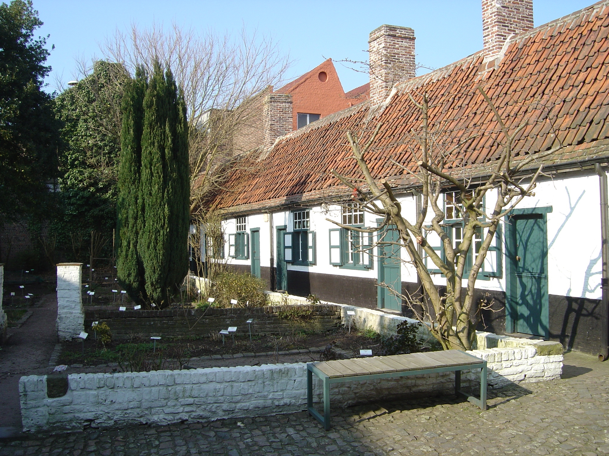 Kortrijk (Belgium) Houses for poor women built by Joossine Baggaert in 1638 I took this picture in march 2006